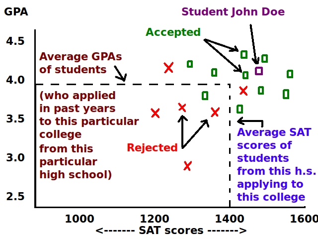 Naviance is an online service which high schools can subscribe to which, among other things, can help a student gauge the likelihood of admission to a particular college from a particular high school. It works by comparing a particular student's GPA and test scores with those of past students from that high school who applied to a particular college. The result is a scattergram which illustrates graphically the chance for admission based on past admissions decisions. The green boxes are past acceptances; the red X's are past rejections.